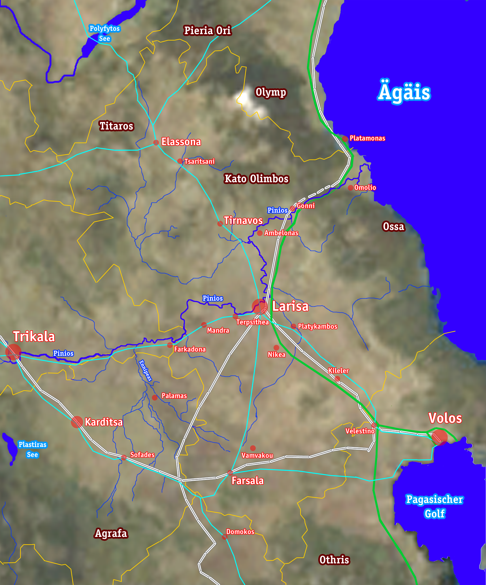 Map of the Larisa Prefecture in Greece based on a NASA satellite image of Greece with overlaying of information.